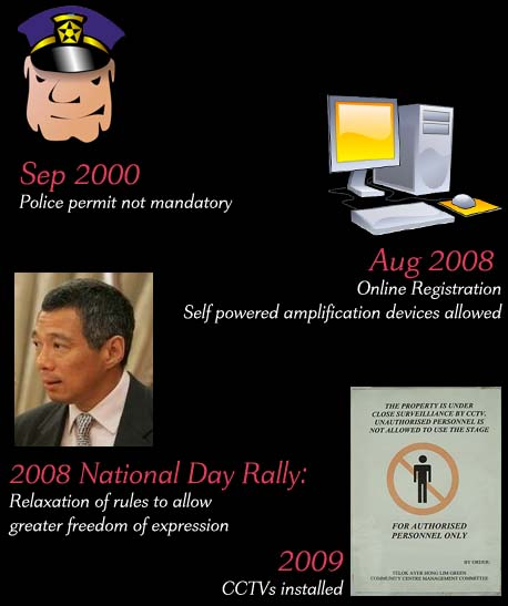 A graphic showing how Speakers' Corner, Singapore, has been liberalized over the years.